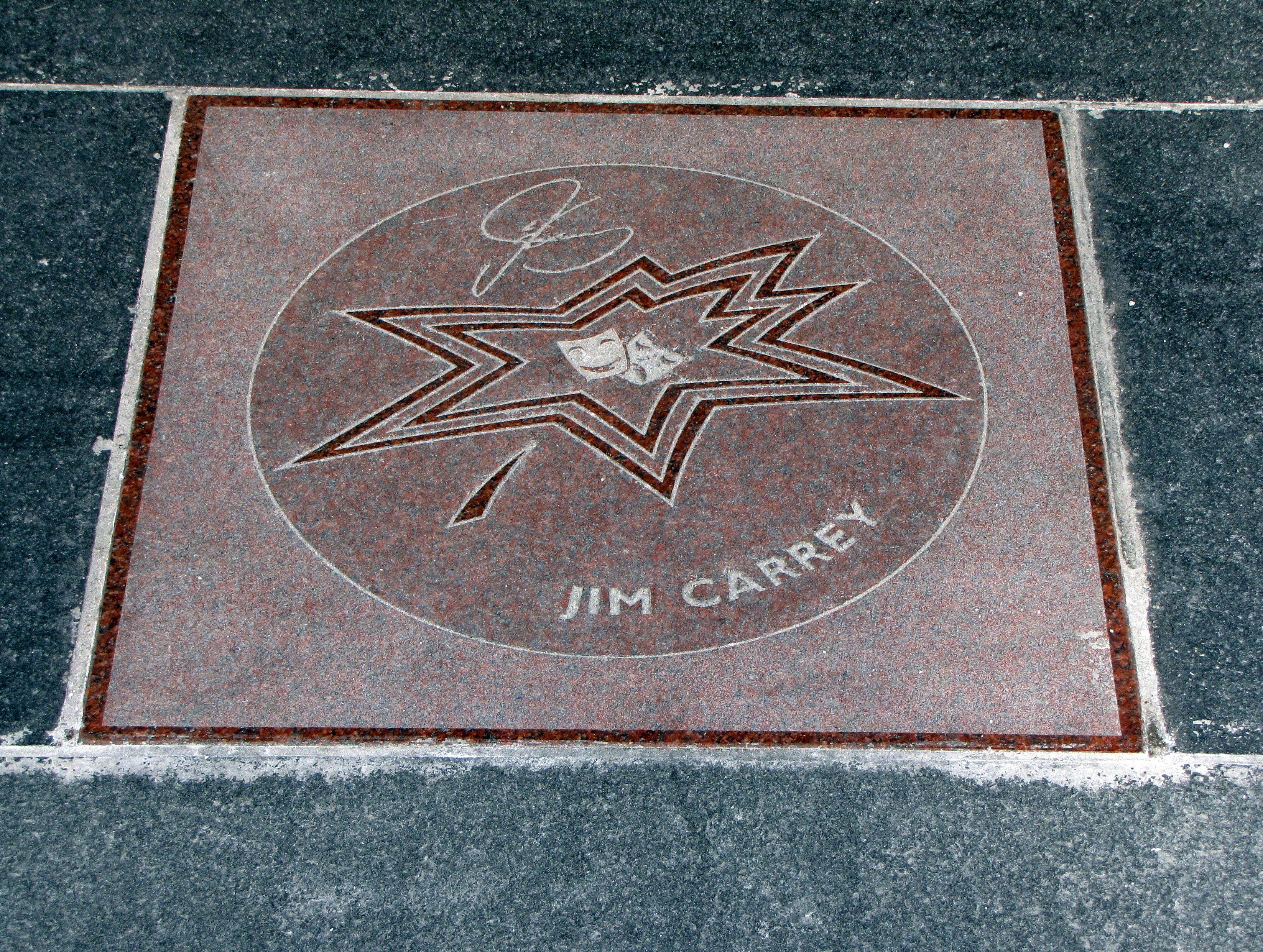 Jim Carrey's star on Canada's Walk of Fame